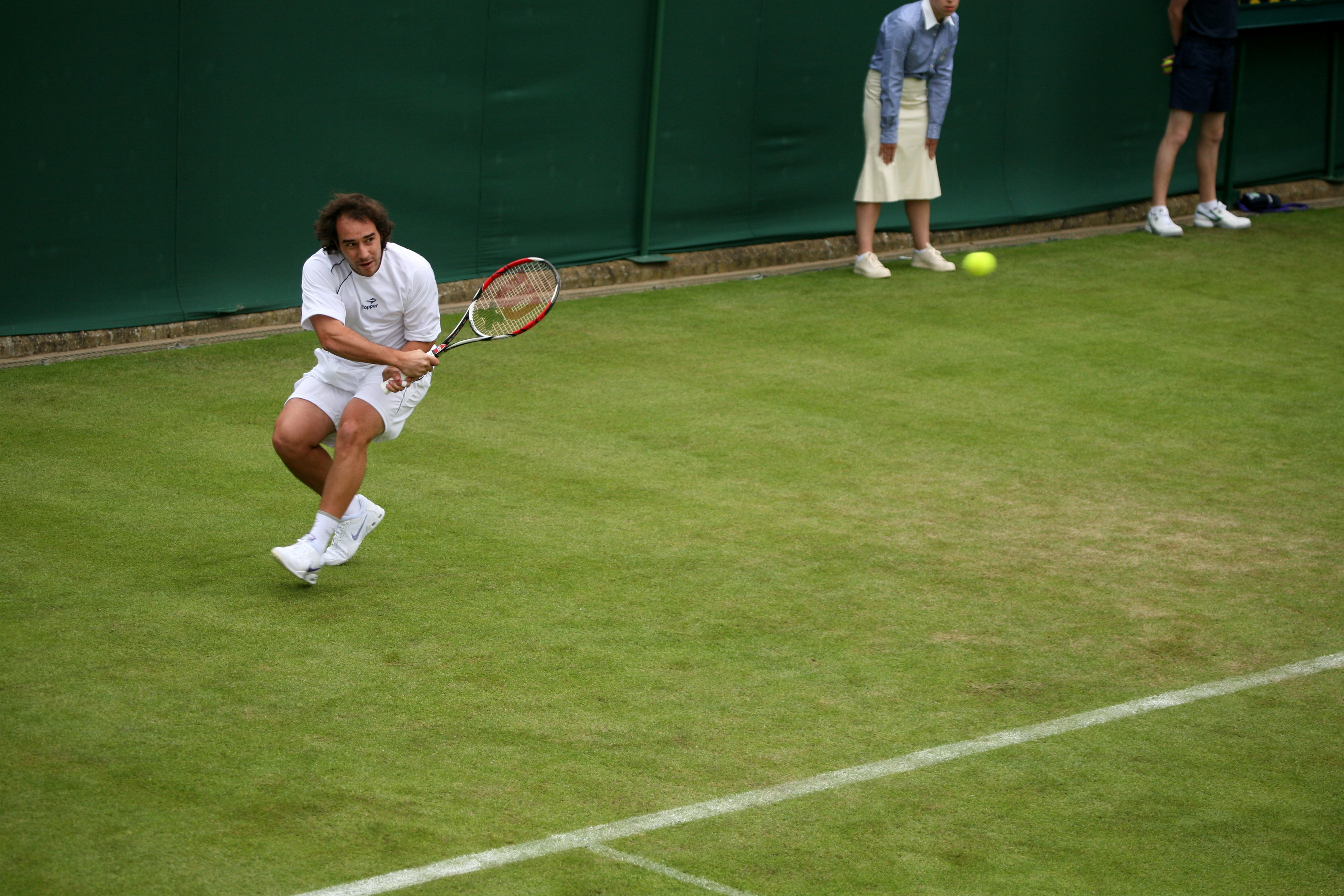 Diego Junqueira against Guillermo Cañas in the 2009 Wimbledon Championships first round